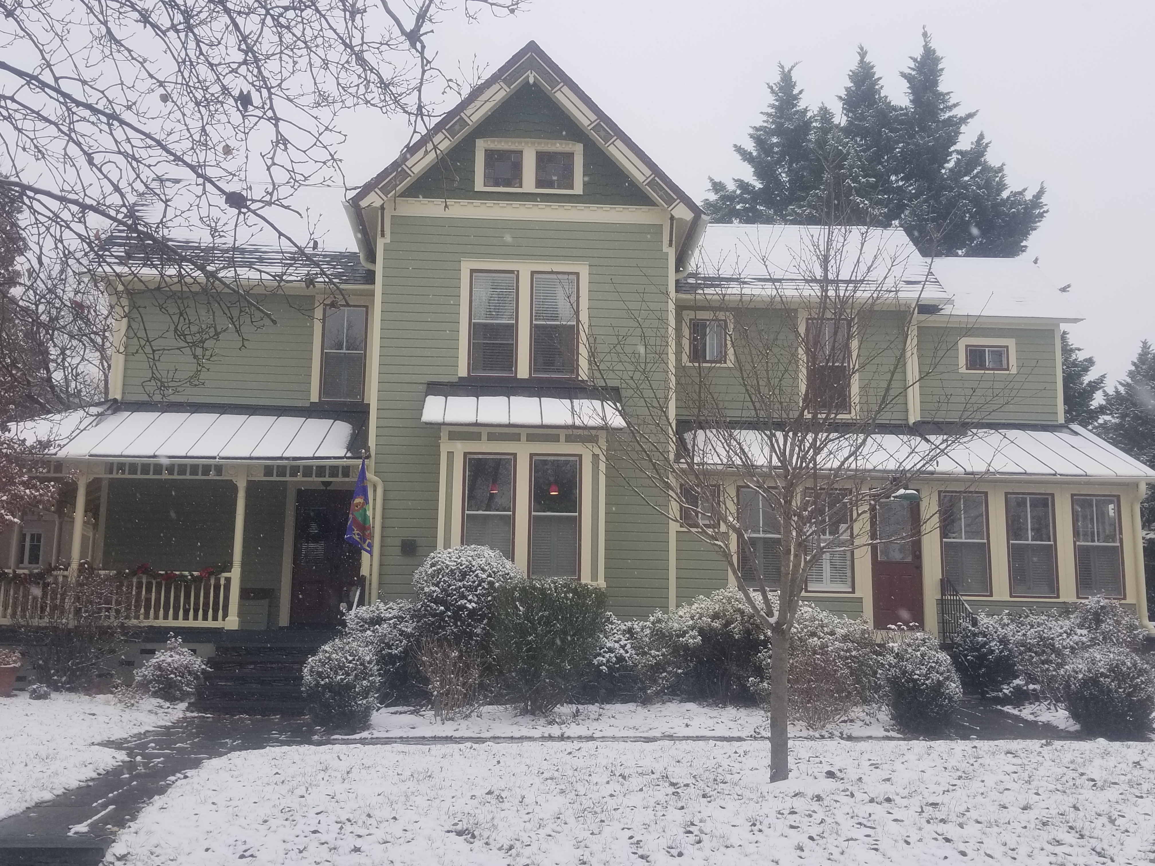 After more than 75 years of being painted white, Crossman House was returned to its historical color of green in Dec 2017. The current owners identified the color from tiny sections of paint found during the most recent renovation.